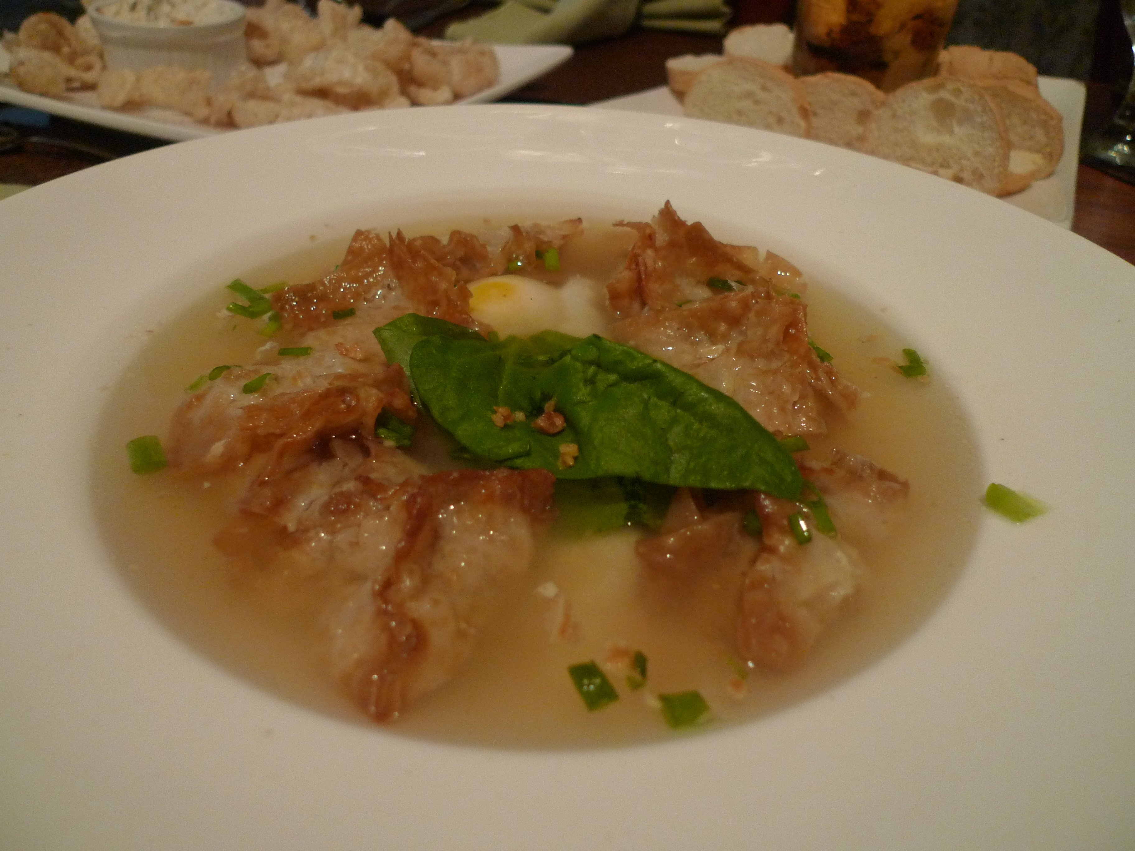 Cafe Roces Molo